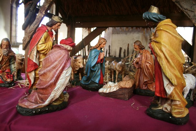 Adoration of the Magi Nativity scene in St.James' church, still there on February 4th !